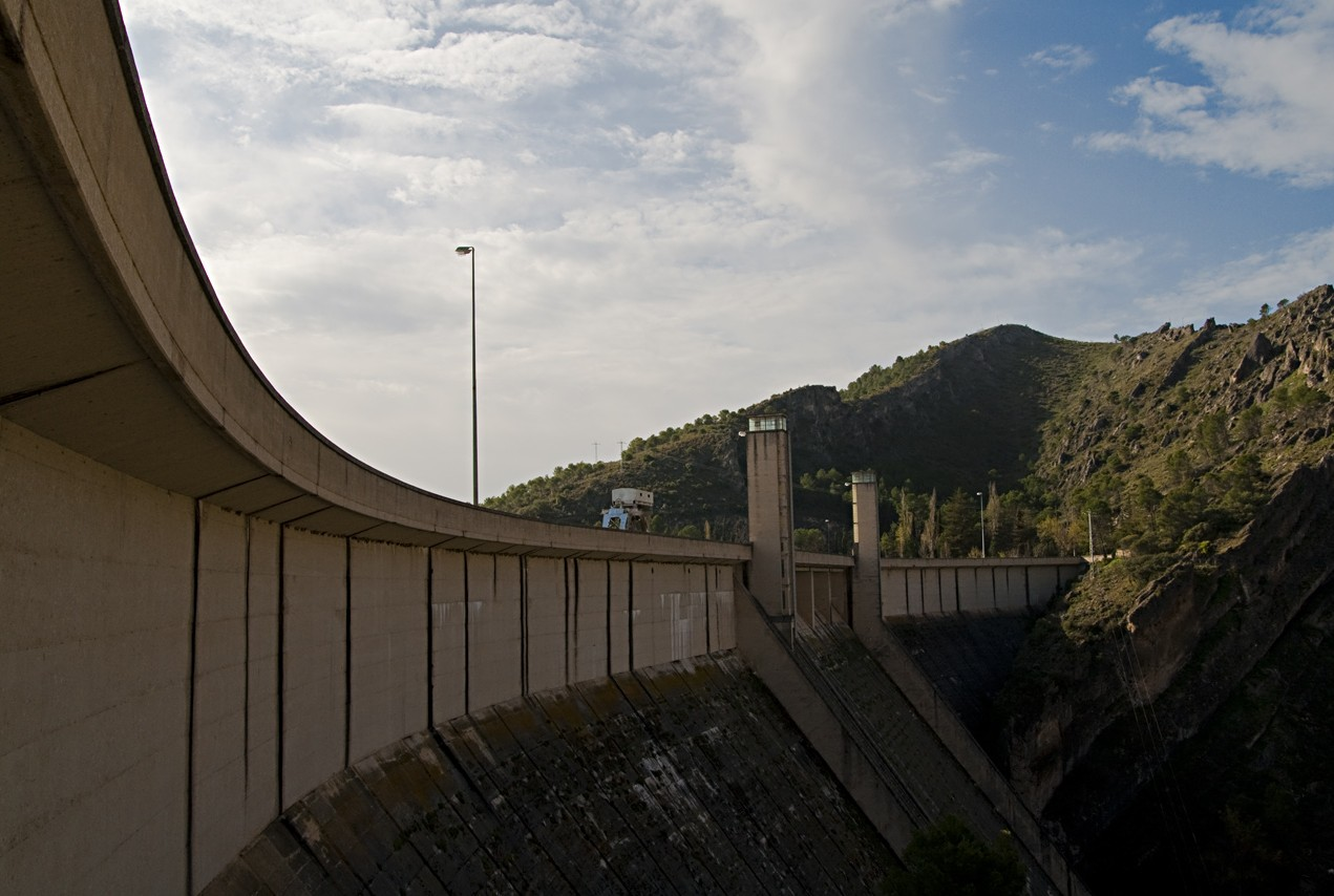 Dam of Buendía reservoir (Cuenca, Spain).